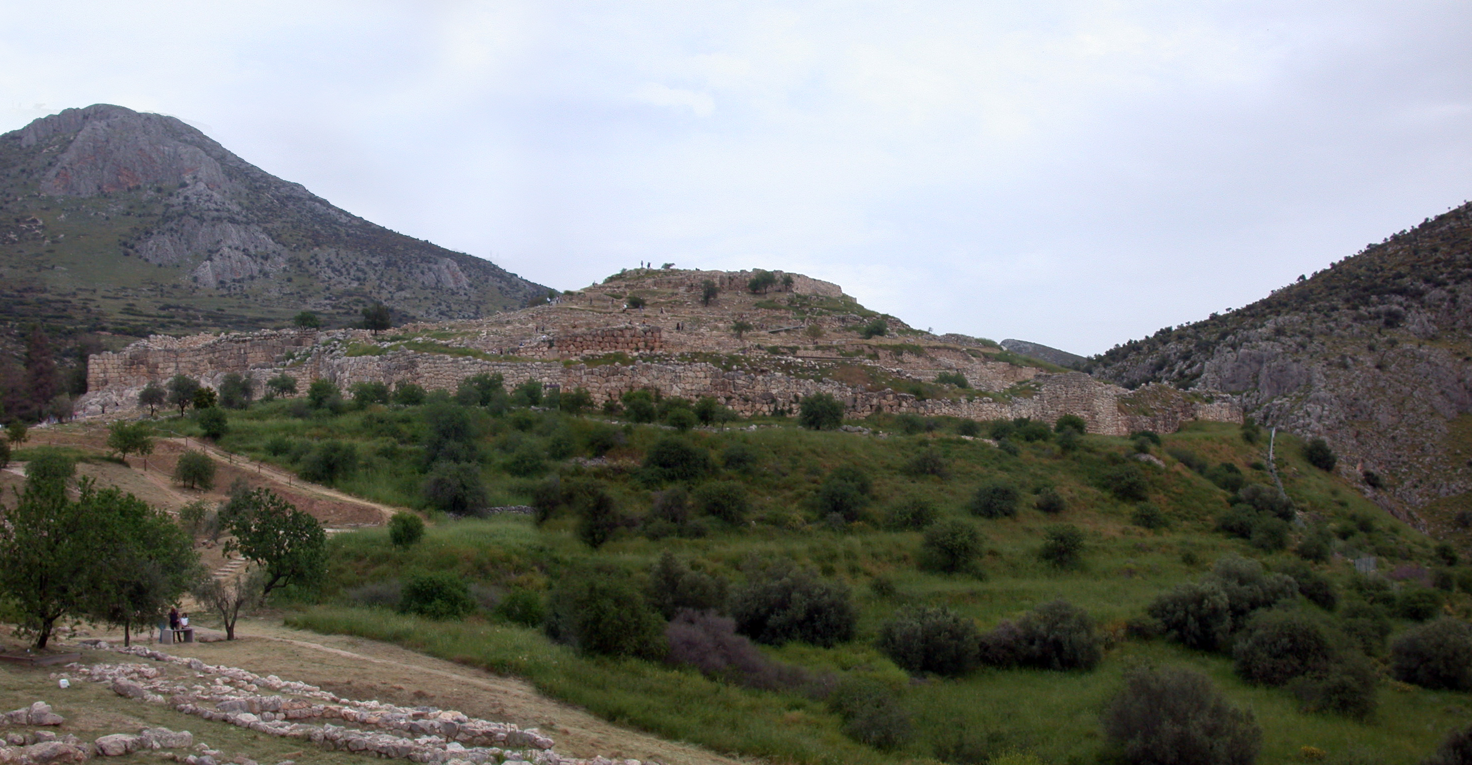 View of the ancient city